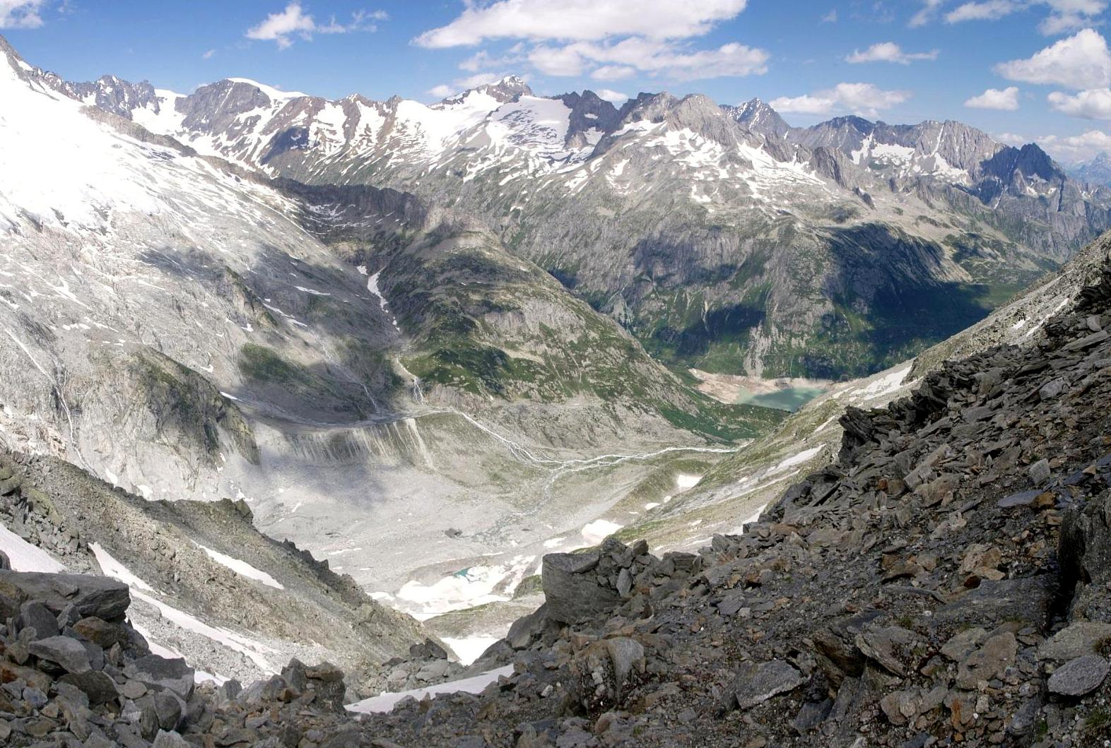 Sustenhorn from Göschenertal